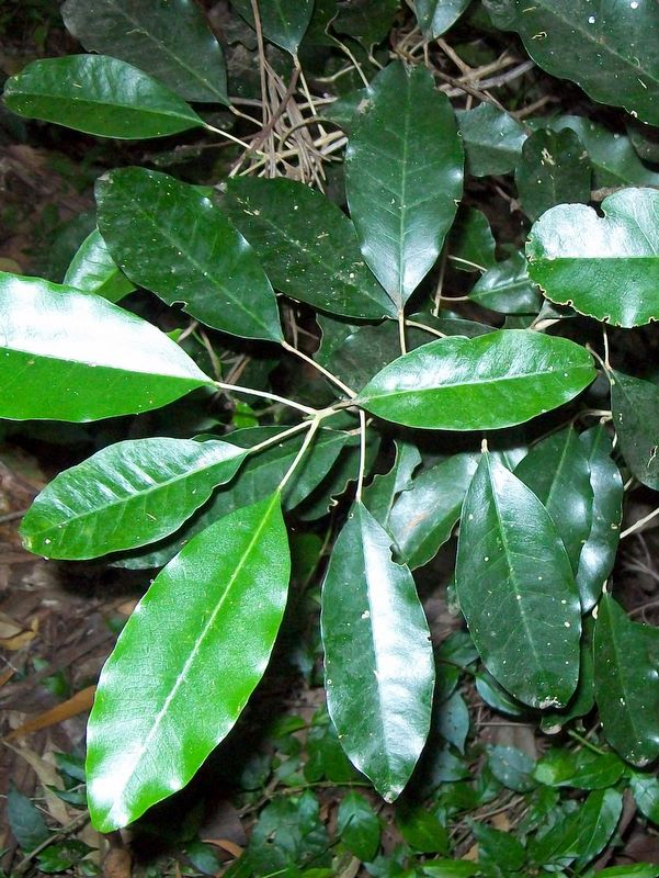 Sarcomelicope simplicifolia leaves, West Pennant Hills